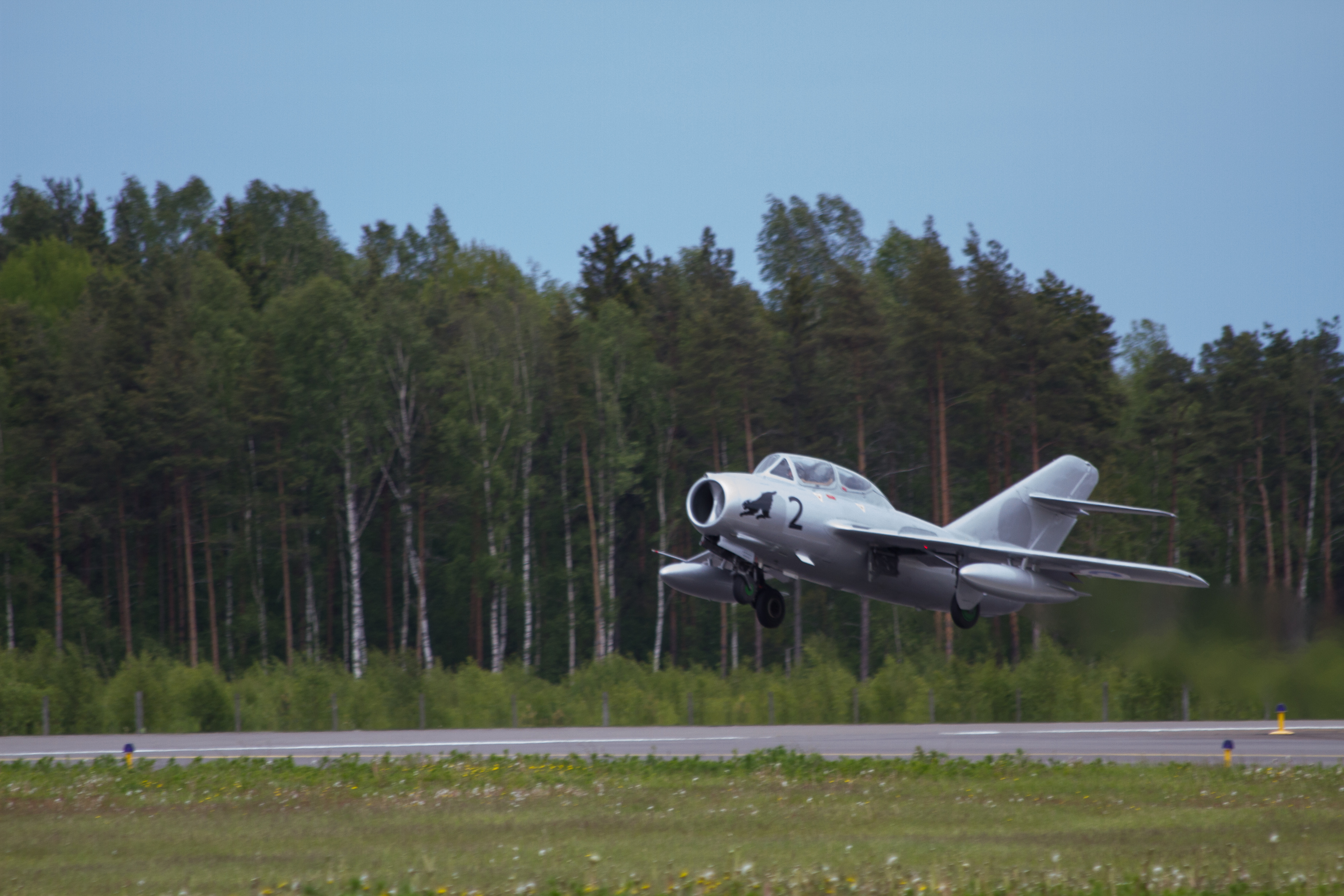 MiG-15 taking off